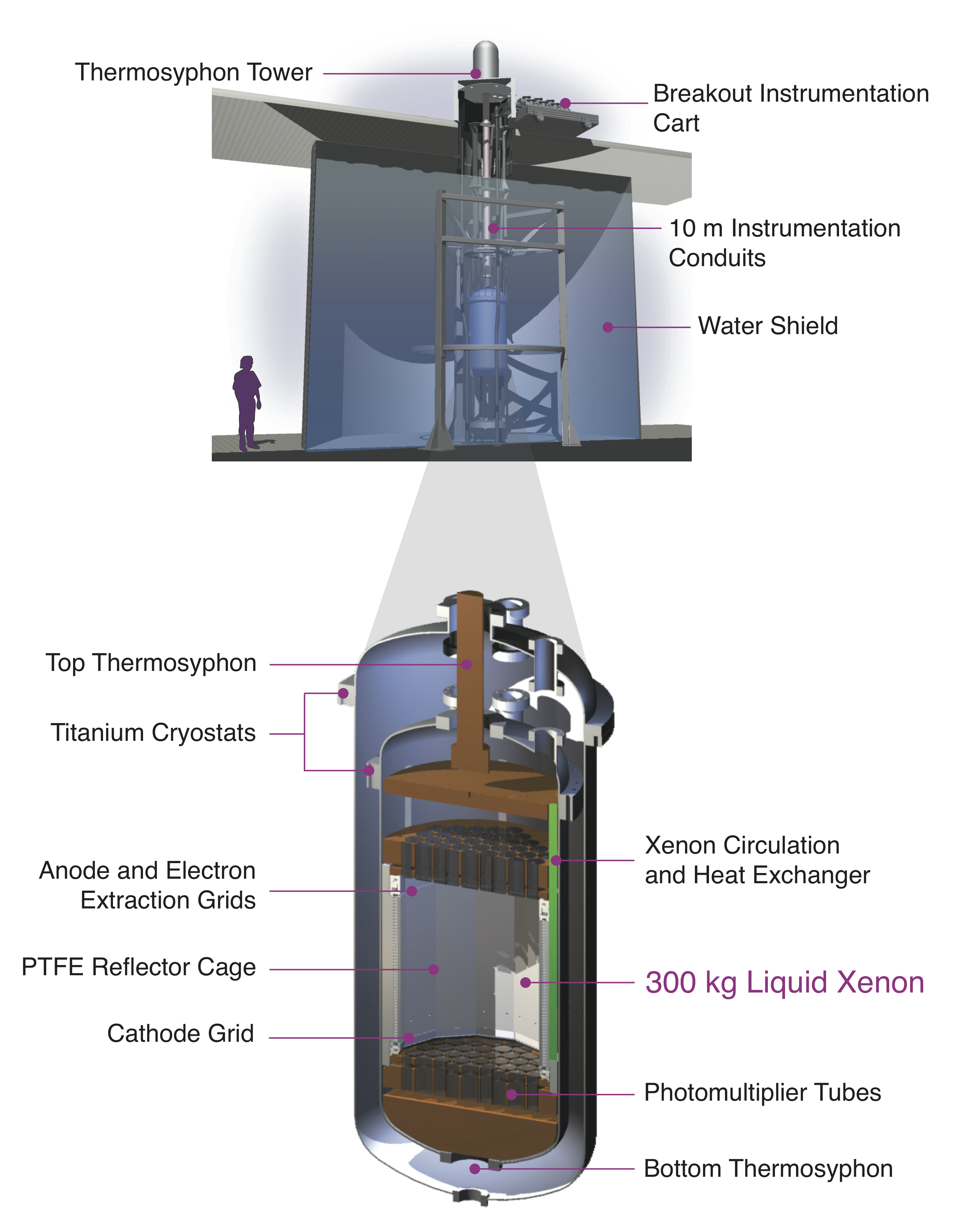 Diagram by David Taylor, James White and Carlos Faham.